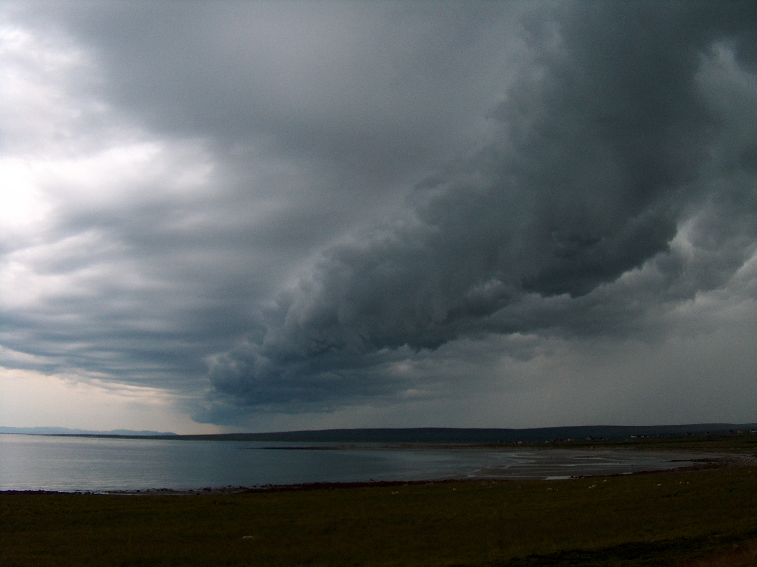 Cumulonimbus shelf cloud over Varangerfjord